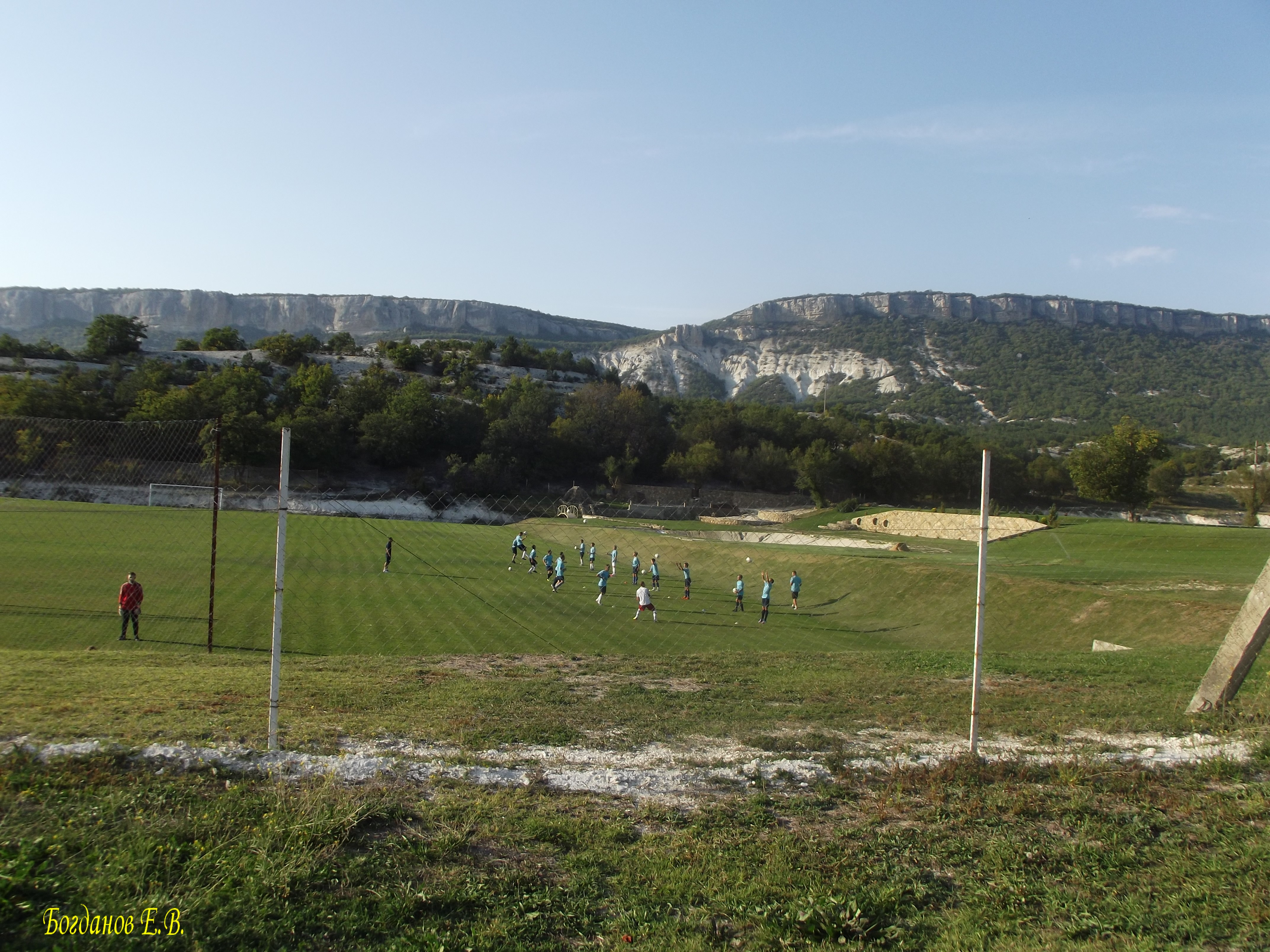 Inkomsport Stadium in Kuybysheve, Bakhchysarai Raion, Crimea, Ukraine